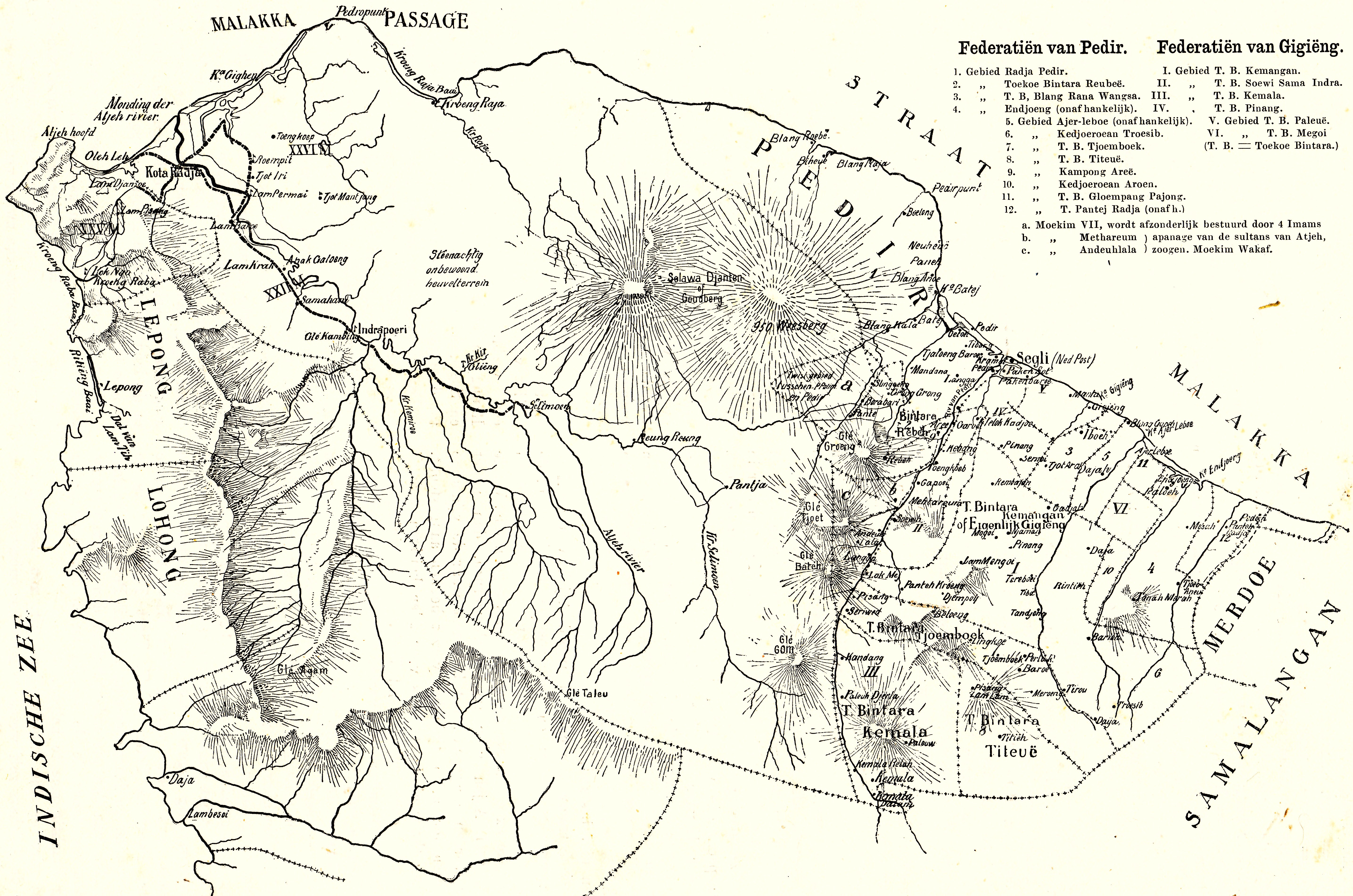 Overzichtskaart van Groot Atjeh, Pedir en Gigien